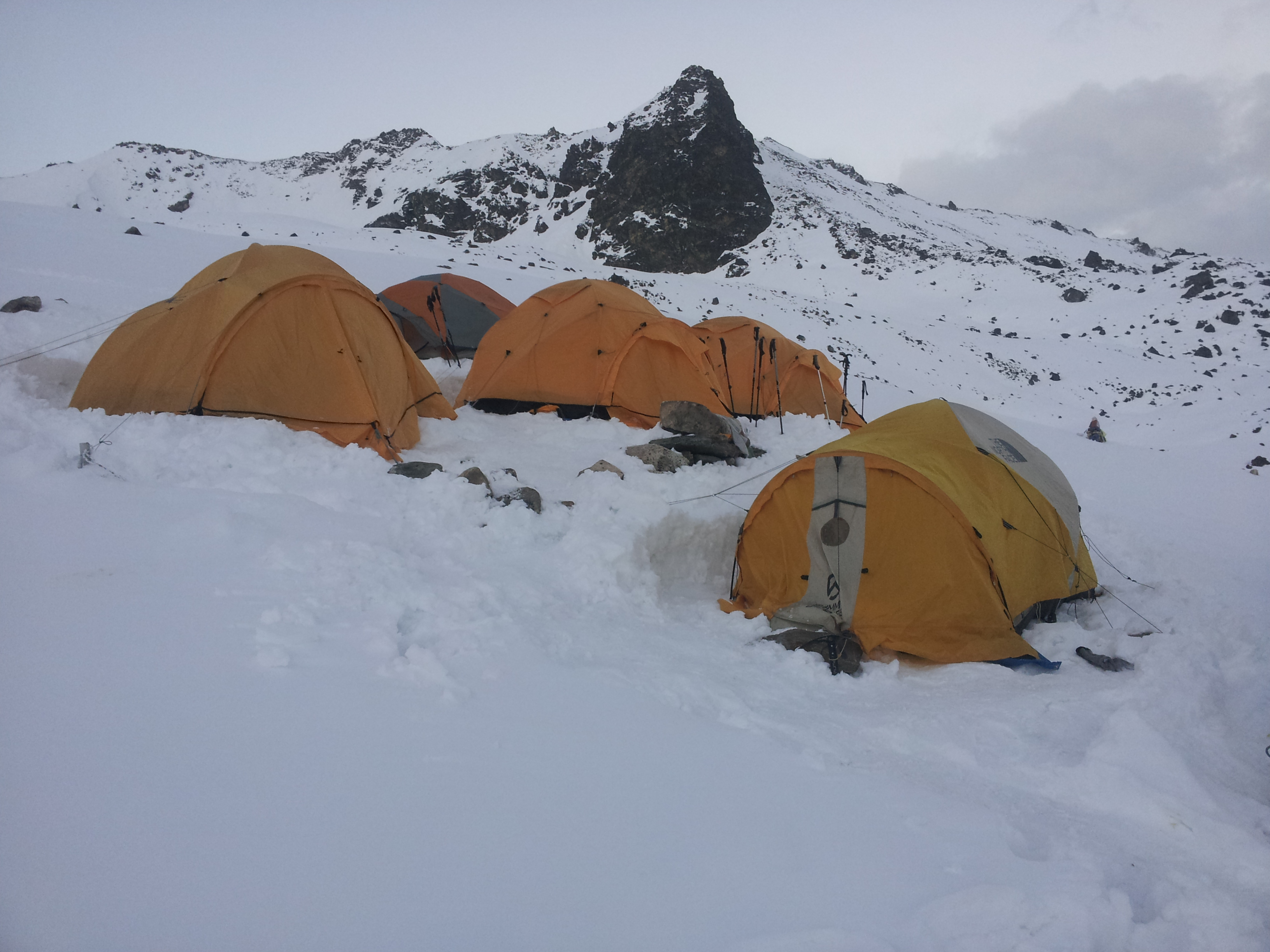 yela base camp